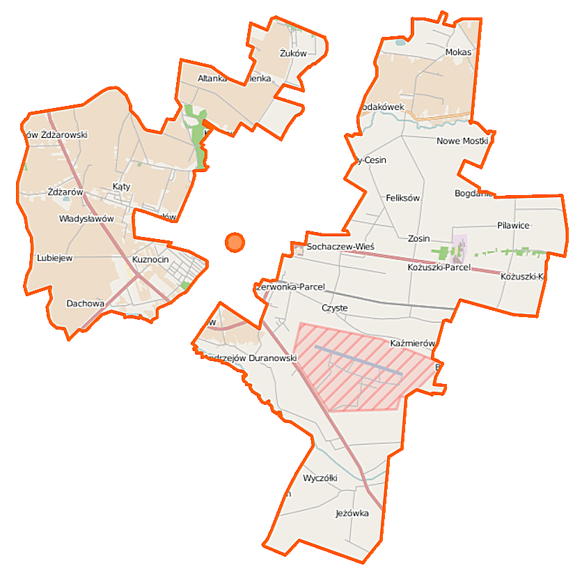 Map of Gmina Sochaczew, Poland This map of Sochaczew (gmina wiejska) was created from OpenStreetMap project data, collected by the community. This map may be incomplete, and may contain errors. Don't rely solely on it for navigation. Border coordinates52.285420.1496←↕→20.379352.1463